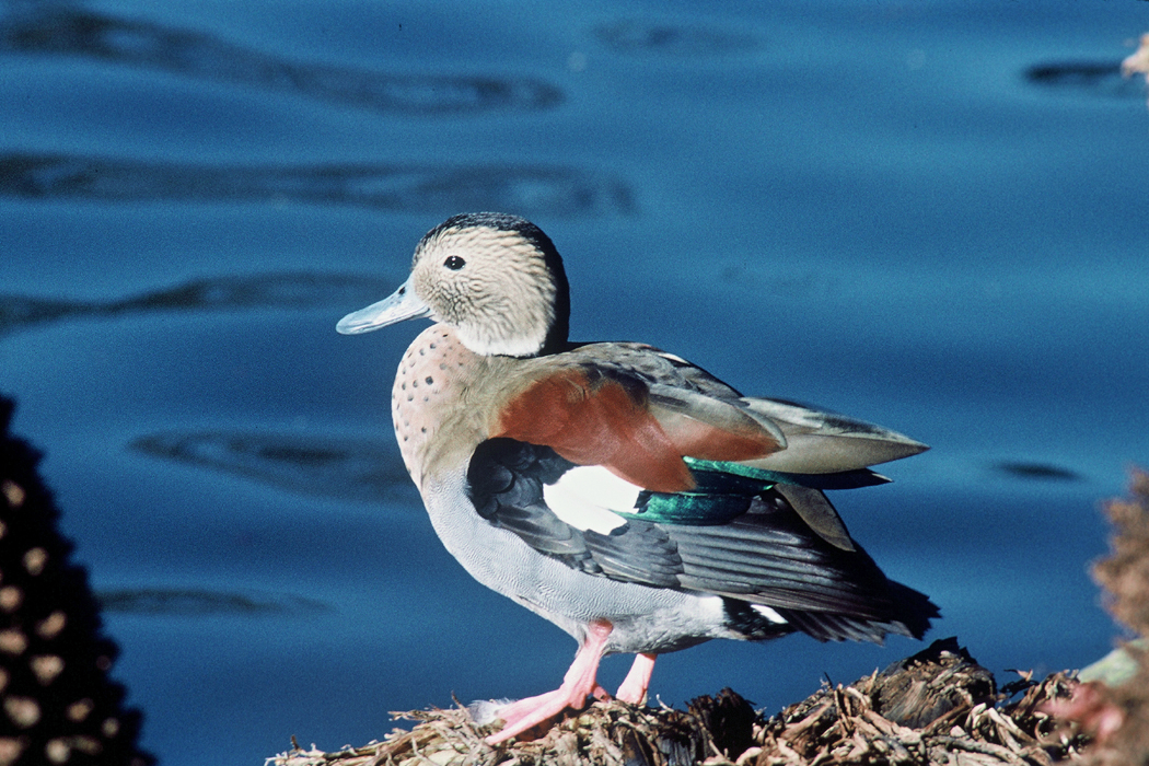 Male Ringed Teal in Brazil